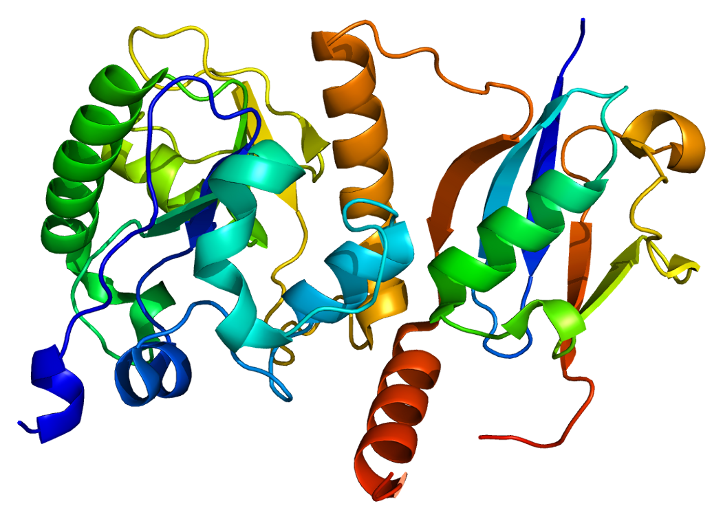 Structure of the TDG protein. Based on PyMOL rendering of PDB 1wyw.